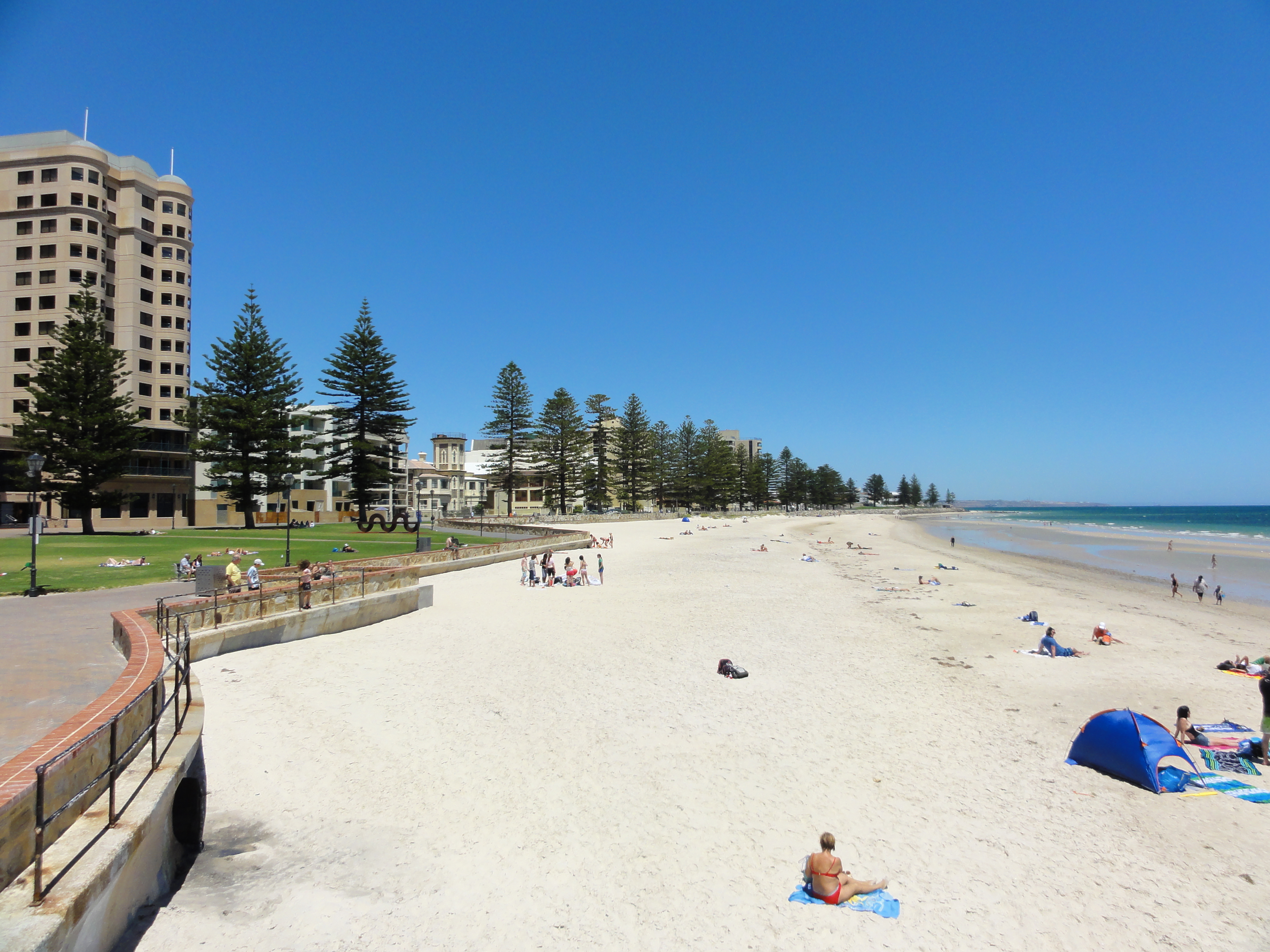 Glenelg Beach in summer